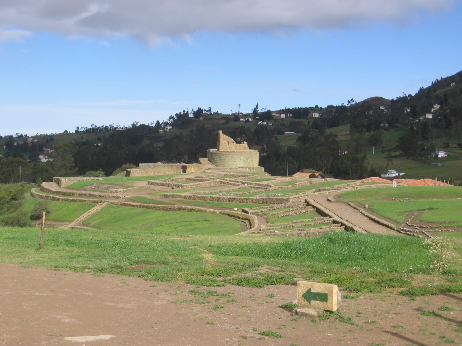 Ingapirca